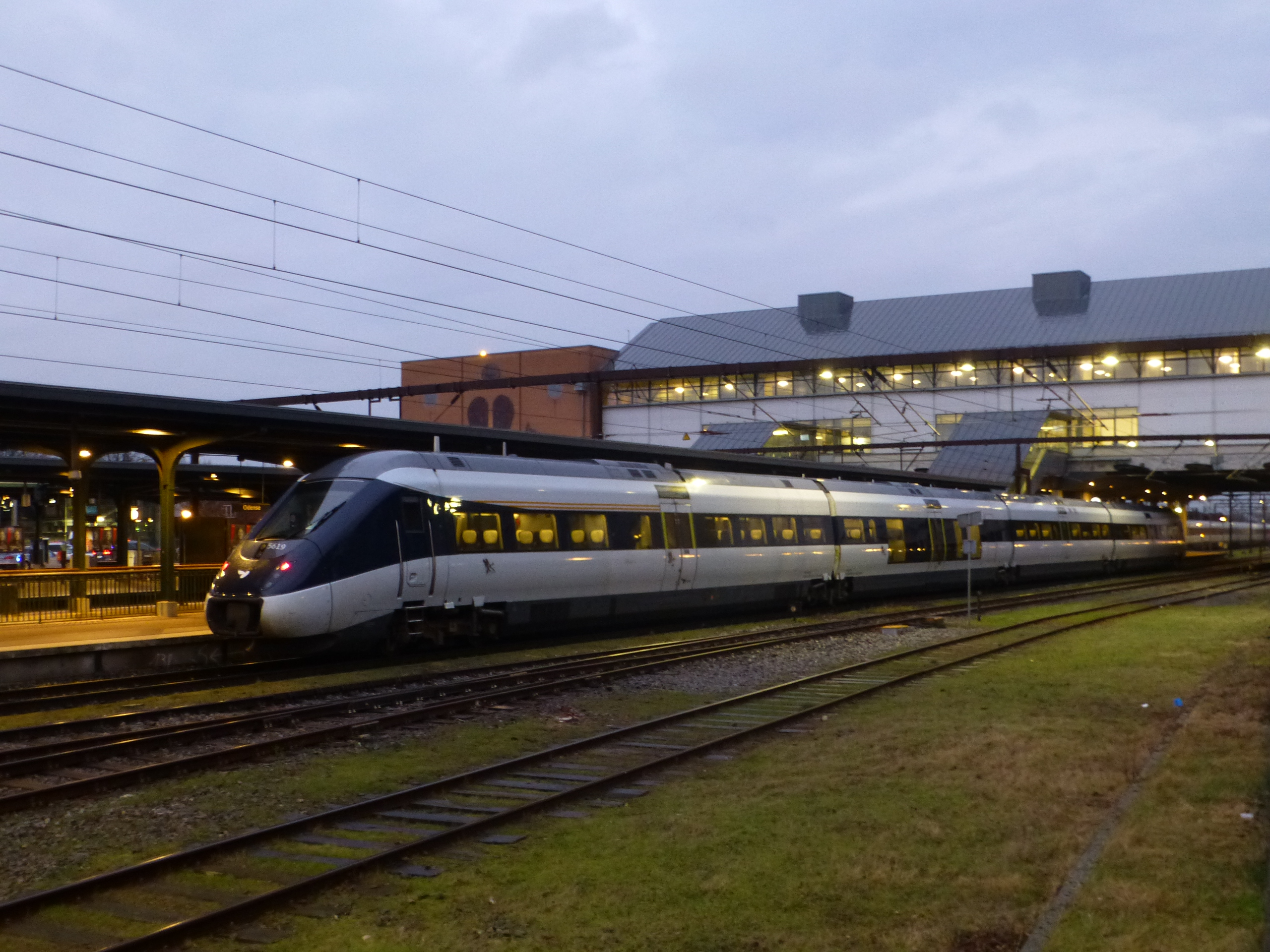 Diesel multiple unit IC4 19 in Odense in Denmark.